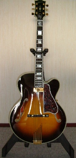 This is a picture I have made of my Lee Ritenour L-5 guitar. It should be in the article under Biography where the Lee Ritenour Model archtop guitar is mentioned.